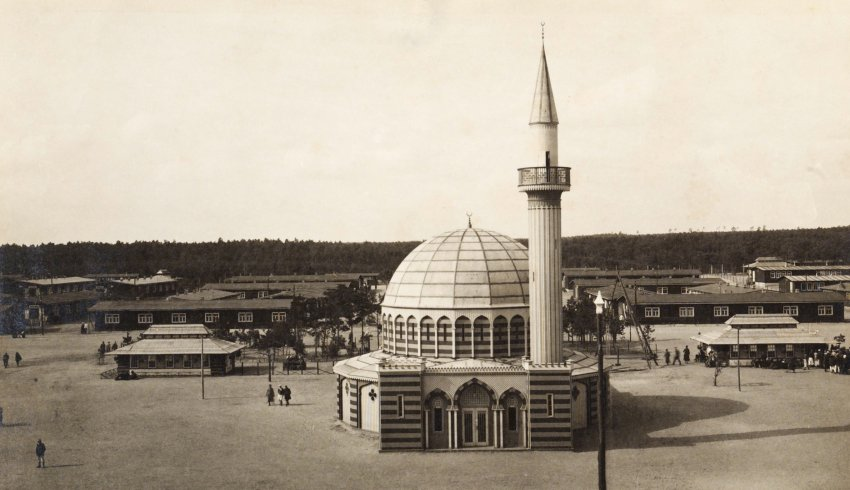 Halbmondlager Mosque in camp WÃ¼nsdorf in Brandenburg â hier stand die erste deutsche Moschee. Eingeweiht im Ersten Weltkrieg, im Juli 1915. Gebaut fÃ¼r muslimische Kriegsgefangene aus den alliierten Armeen. Moscheeansicht: Im sogenannten Halbmondlager Wünsdorf wurde im Juli 1915 die erste Moschee auf deutschem Boden errichtet. In dem Kriegsgefangenenlager wurden ausschließlich feindliche Soldaten islamischen Glaubens festgehalten, die in dem Gotteshaus ihren religiösen Praktiken nachgehen konnten. Der vom preußischen Militär finanzierte Bau mit dem circa 25 Meter hohen Minarett wurde in nur fünf Wochen errichtet. Mosque view: In July 1915 the first mosque was erected on German soil in the so-called half-moon camp Wünsdorf. The POW camp held only enemy soldiers of Islamic faith who were able to practice their religious practices in the temple. The construction, financed by the Prussian military, with the 25 meter high minaret was built in just five weeks